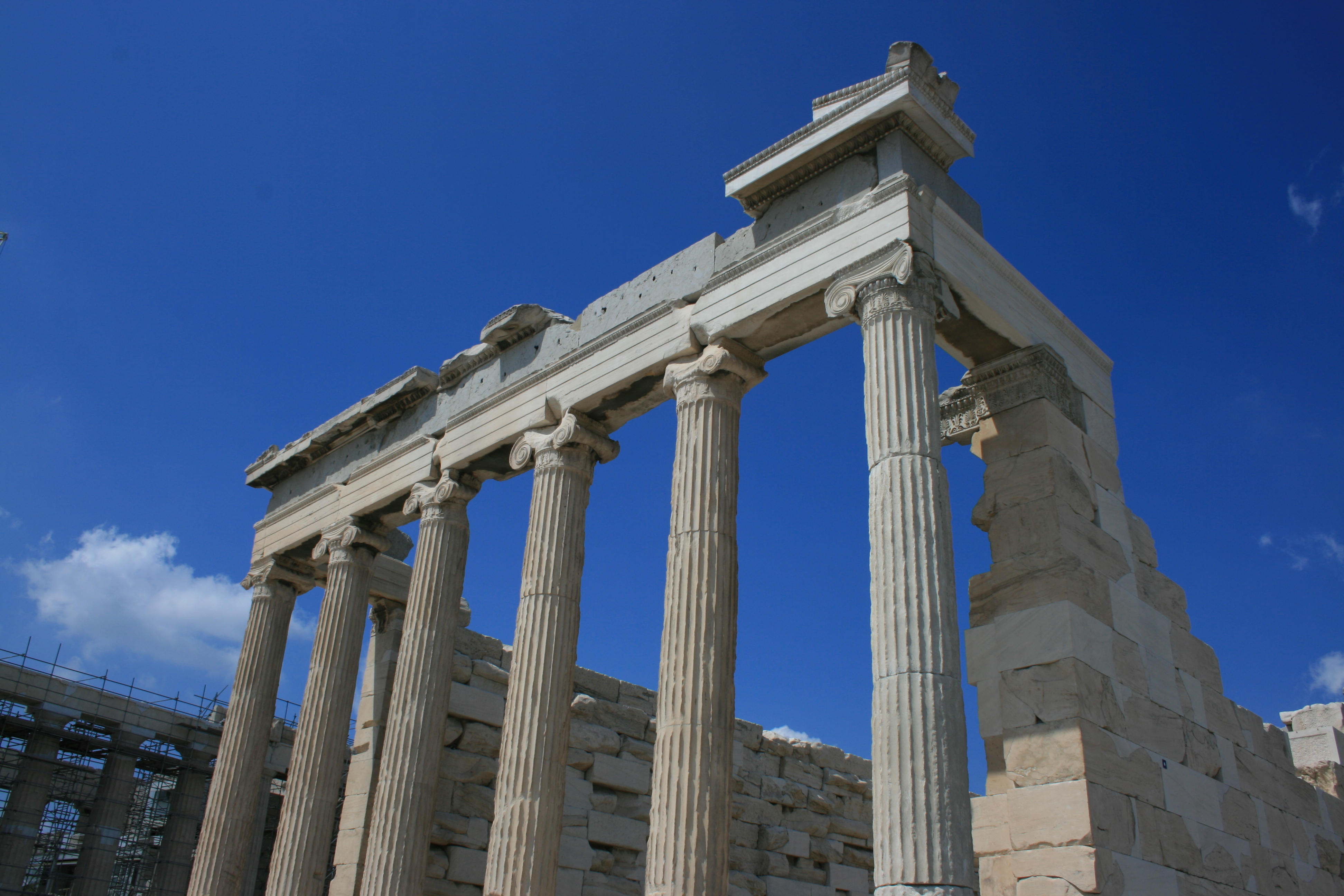 Colonnade and entablature of Erechtheum, greek temple in the acropolis of Athens.